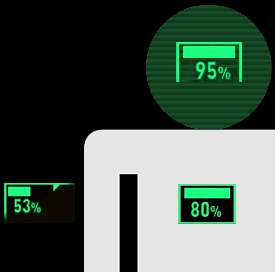 The V.A.T.S. (Vault-Tec Assisted Targeting System) used in the Fallout series. It shows the success rate, in percent, of the attack. The head is the targeted area in this picture.